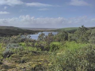 Hvaleyrarvatn, Iceland